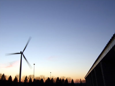 A photo of the 1.6 megawatt St. Olaf wind turbine that began operating September 2006 at St. Olaf College, Minnesota. Photo taken by David Gonnerman.